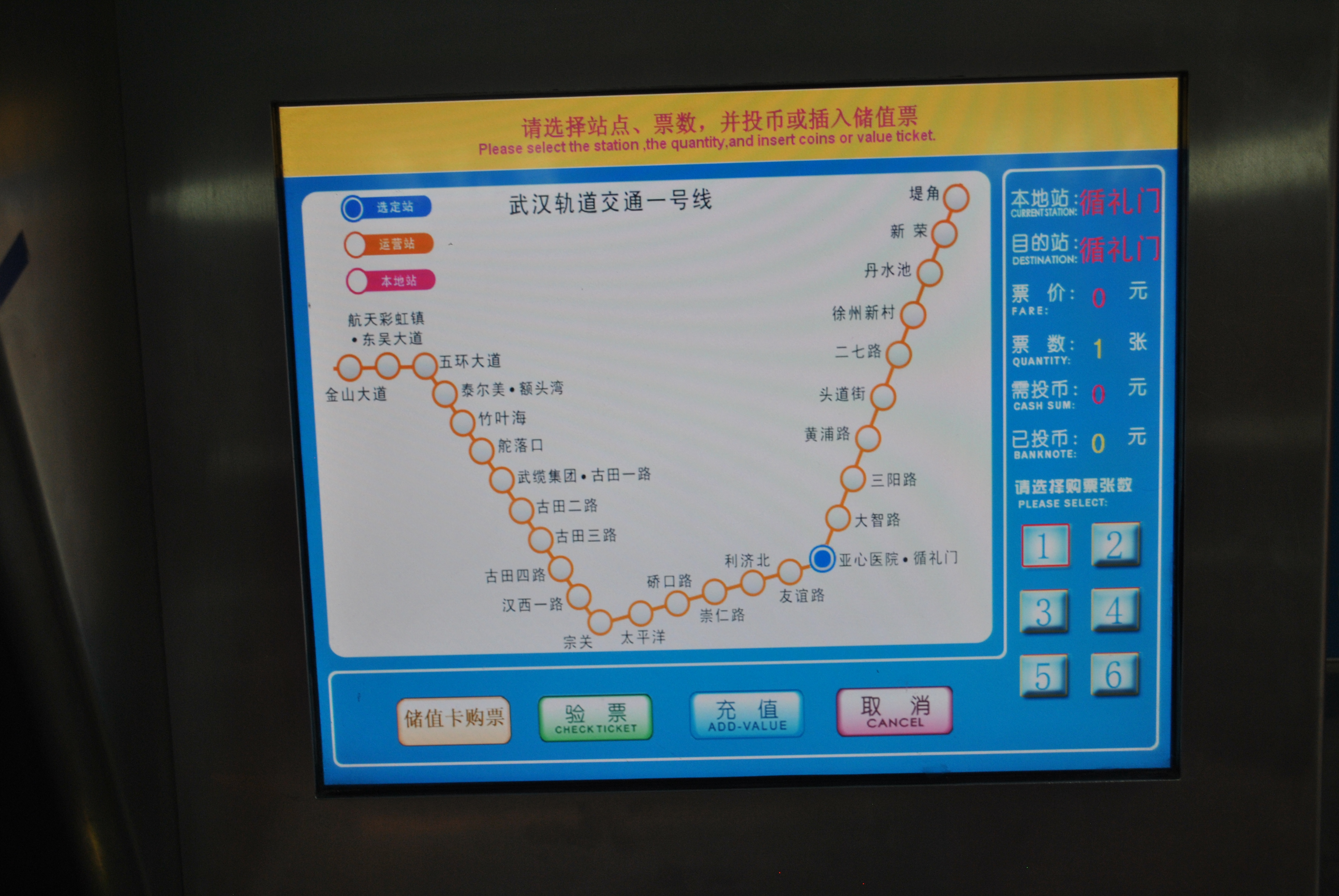 A photo of Wuhan Metro Line 1 Vendor Machine